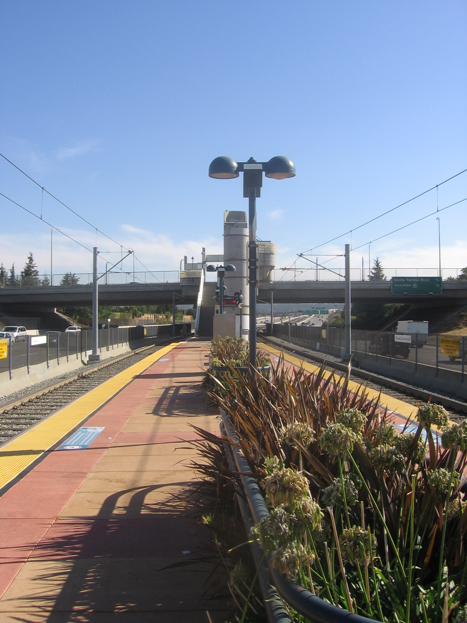 The Branham (VTA) light rail station in San José, California, USA.